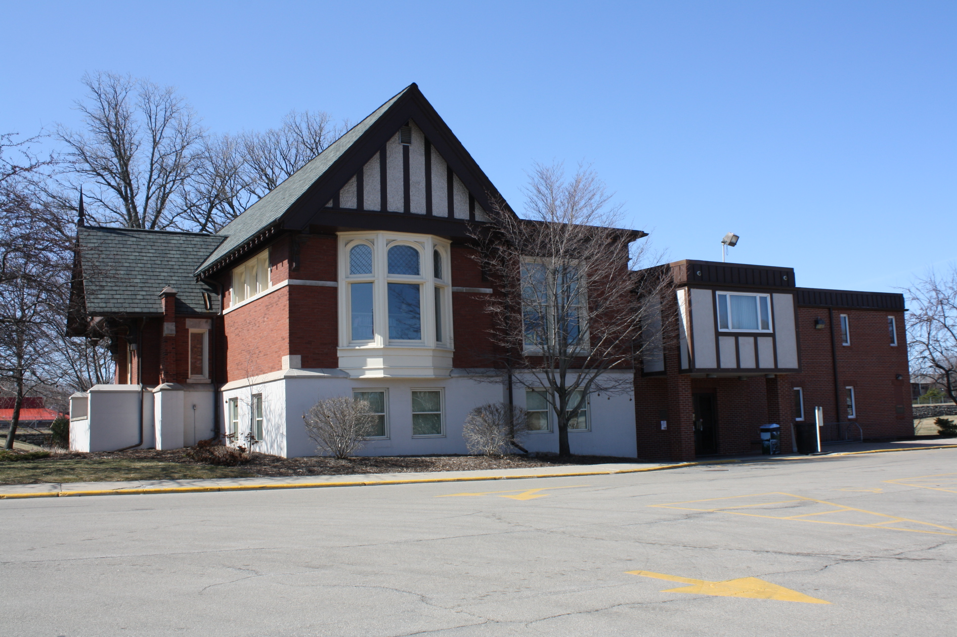 The Free Public Library of Kaukauna in Kaukauna, Wisconsin, listed on the National Register of Historic Places.